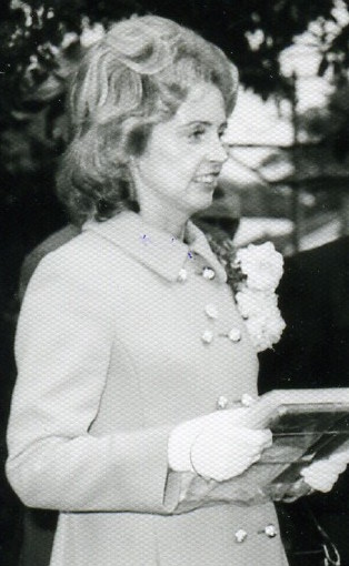 Sonia McMahon in the Blue Mountains, 1971